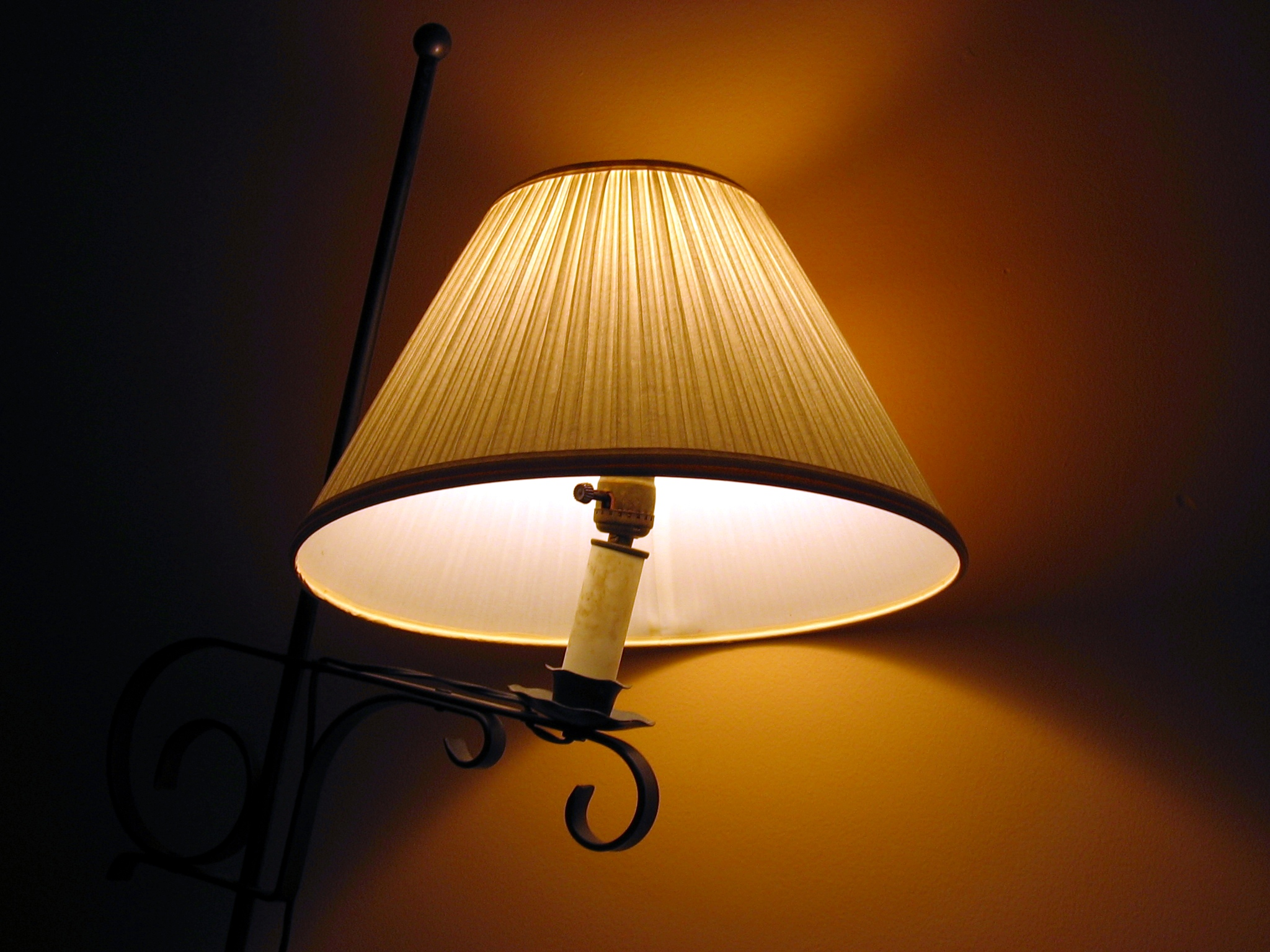 Pole hanging light fixture, taken by myself.